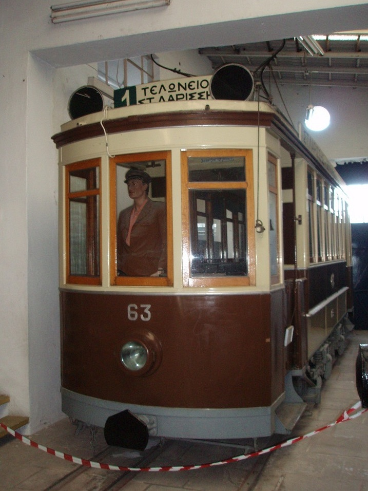 GREECE: MAN/EIS standard gauge tram vehicle 63 of the former Piraeus Harbour Tramway (1935). Preserved at the Railway Museum of Athens.